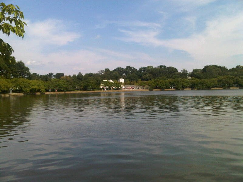 Martin Luther King, Jr. National Memorial, shot from across the Tidal Basin. "Stone of Hope" shows King looking across the water toward the Jefferson Memorial.